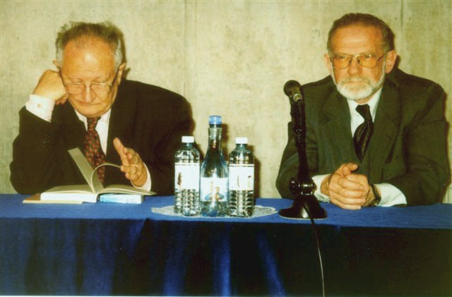 Bronisław Geremek (1932-2008), Polish historian and politician and Zygmunt Kubiak (1929-2004), Polish writer and publicist